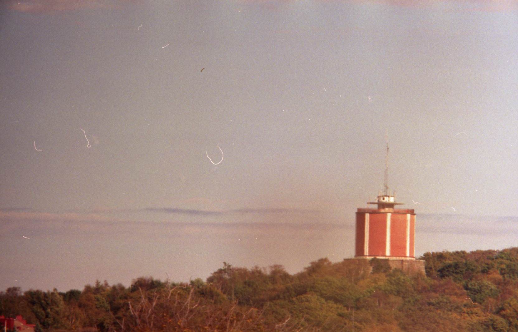 The watertower at Varberg. This is a scan from an negative. The date is scan date.